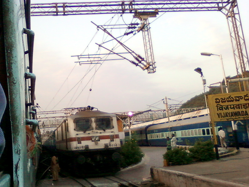 View of Vijayawada Train station in Andhra Pradesh